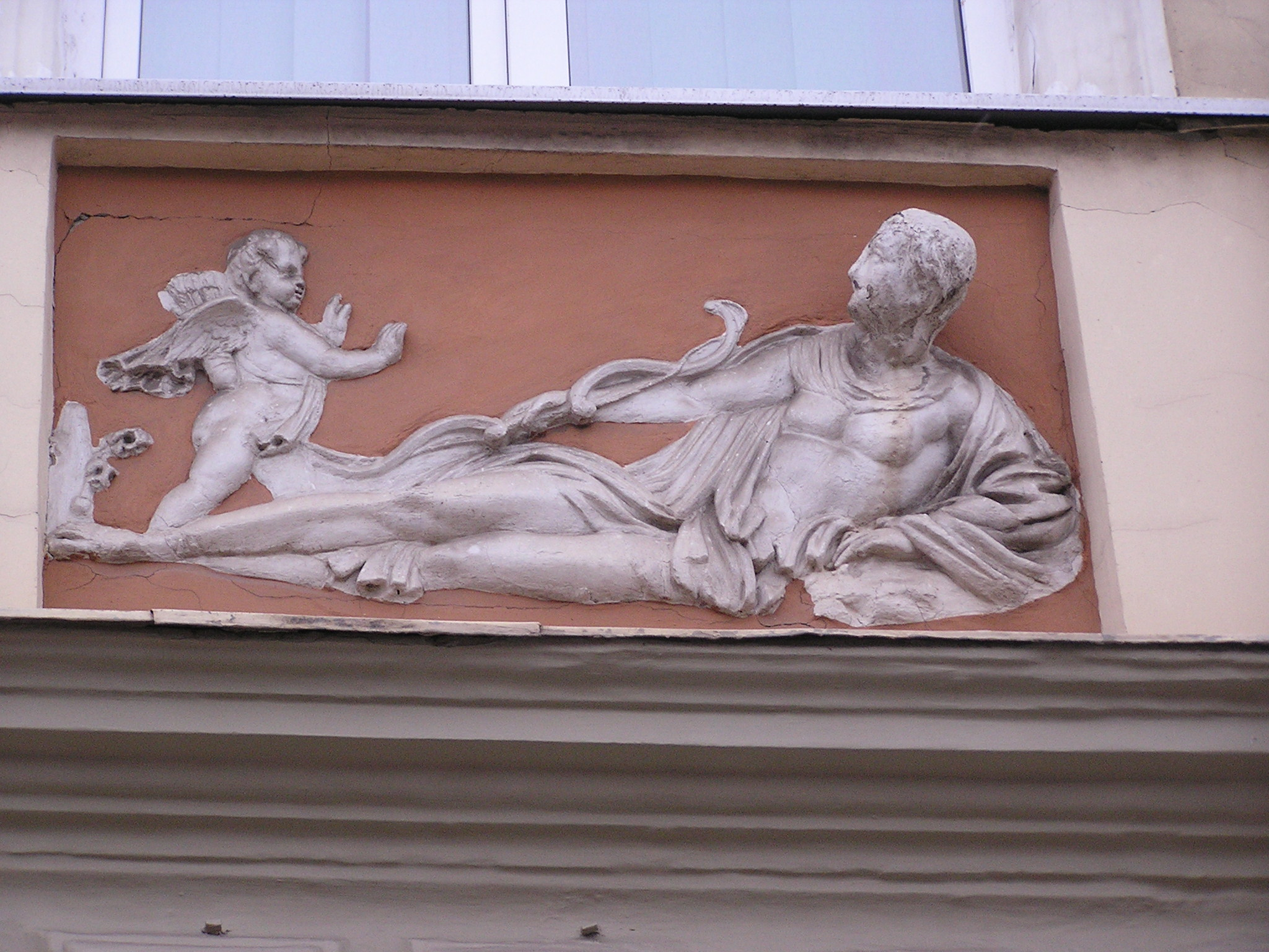 Lviv